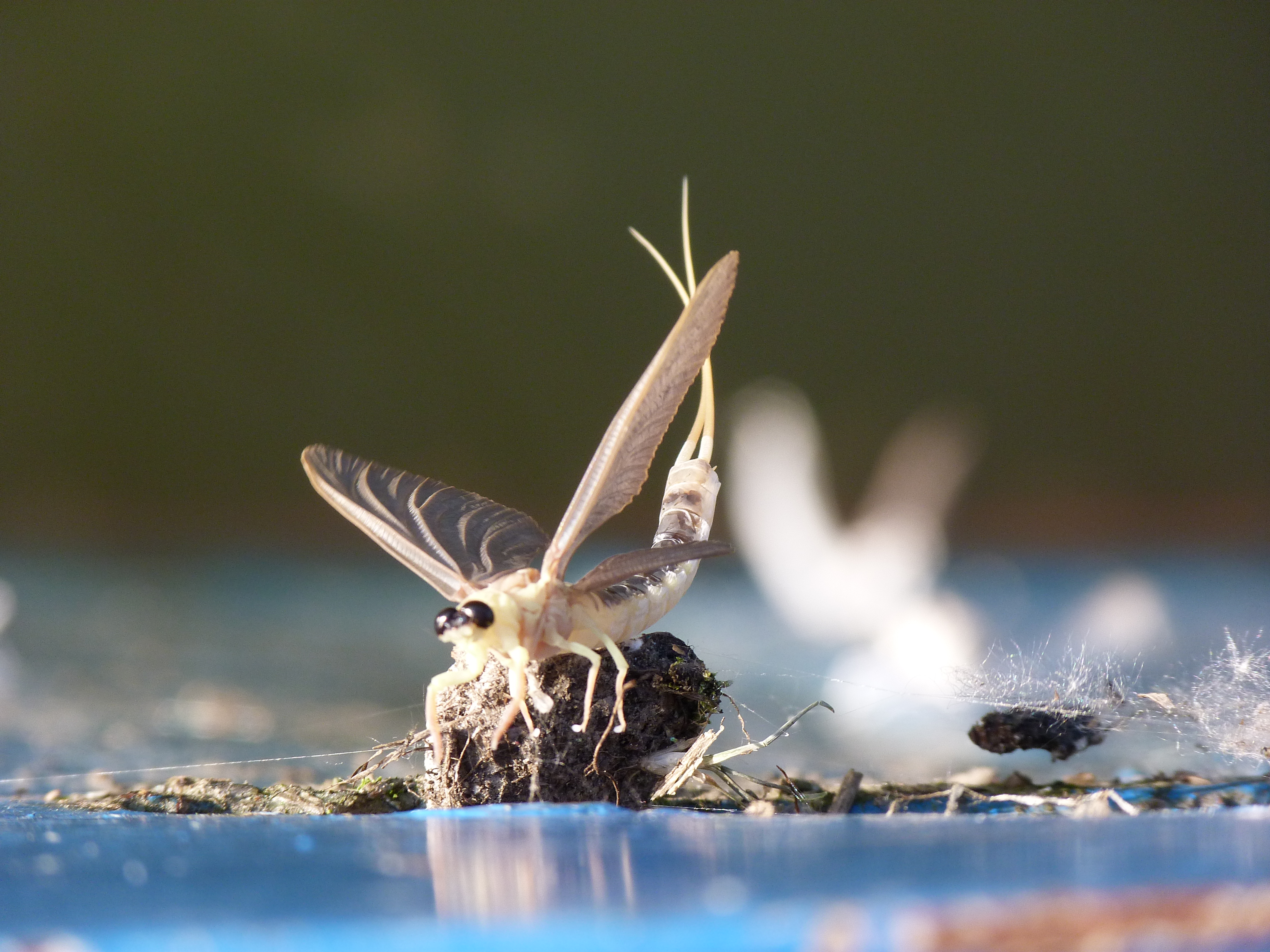 A mayfly (Palingenia longicauda?) is hatching on the river Tisza.